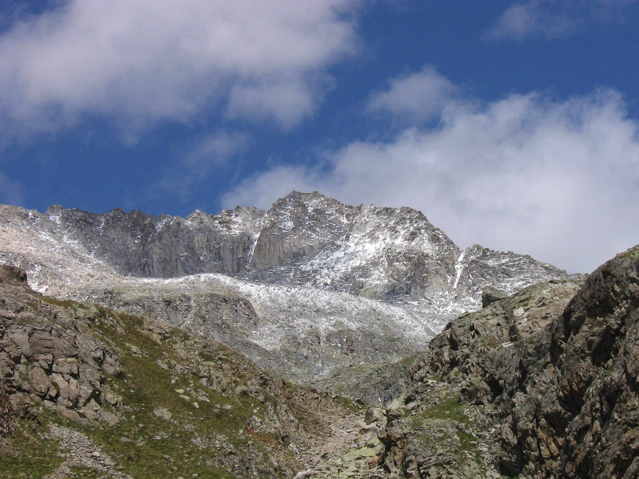 The Corno Baitone (3331 m) is one of the main summits in Adamello mountain range, Italy. This picture was taken from Franco Tonolini alpine hut.